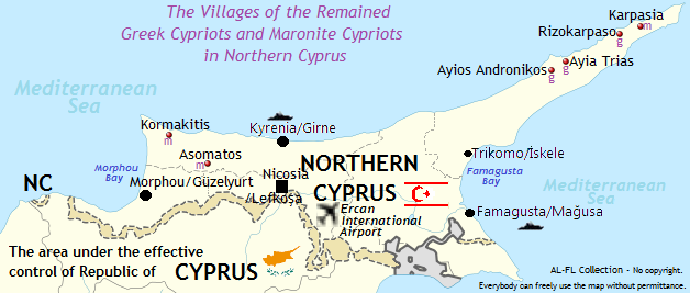 The villages of the remained Greek Cypriots and Maronite Cypriots in Northern Cyprus